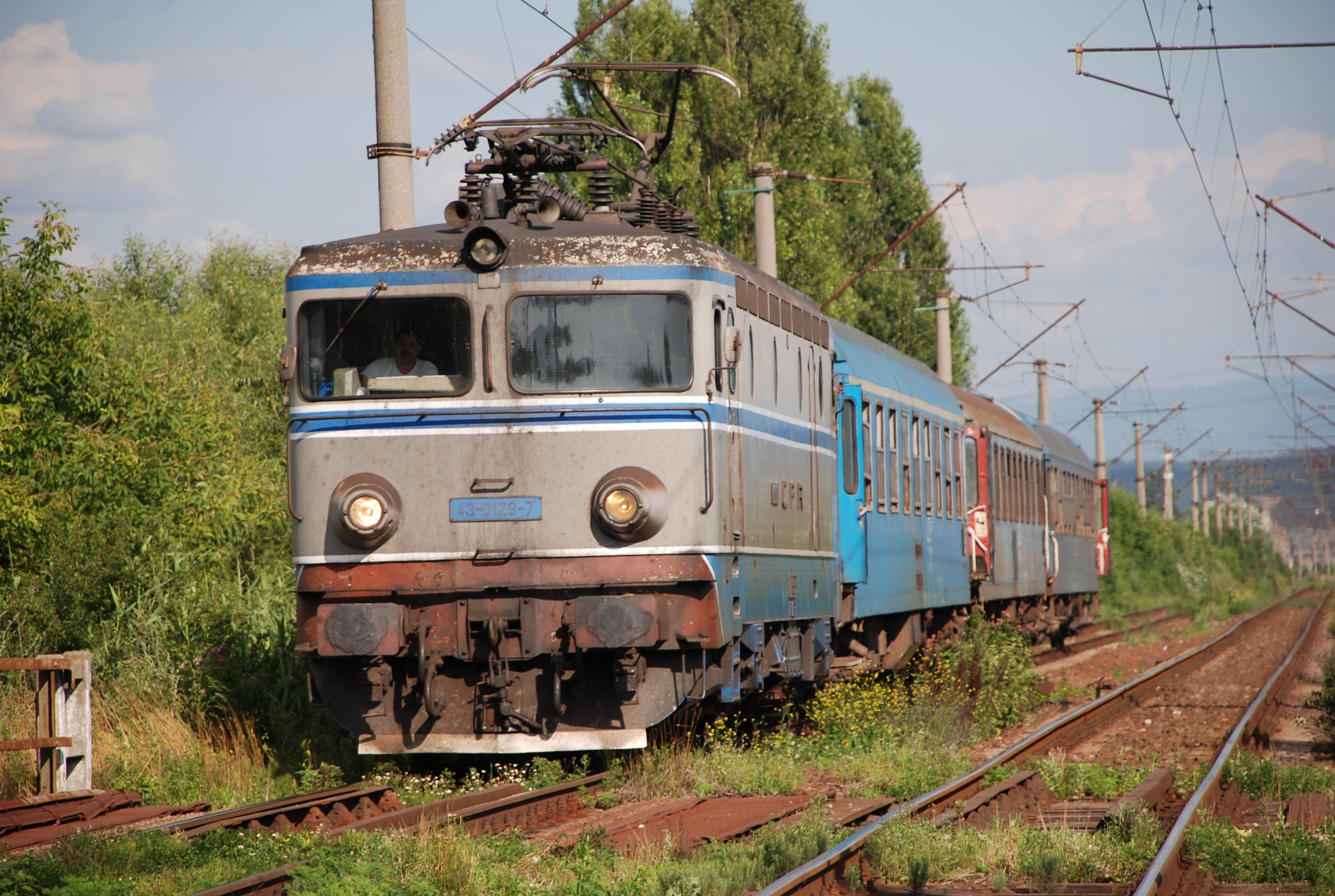 CFR Calatori LE3400 43-0129-7 electric locomotive and passenger train between Simeria and Deva